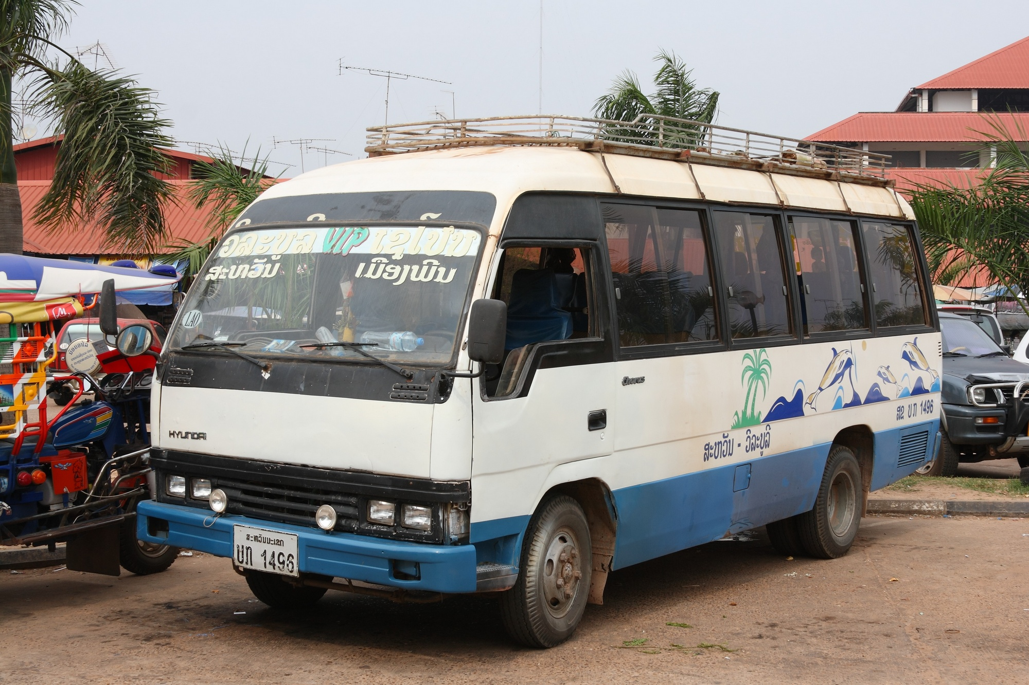 Hyundai Chorus in Savannakhet, Laos